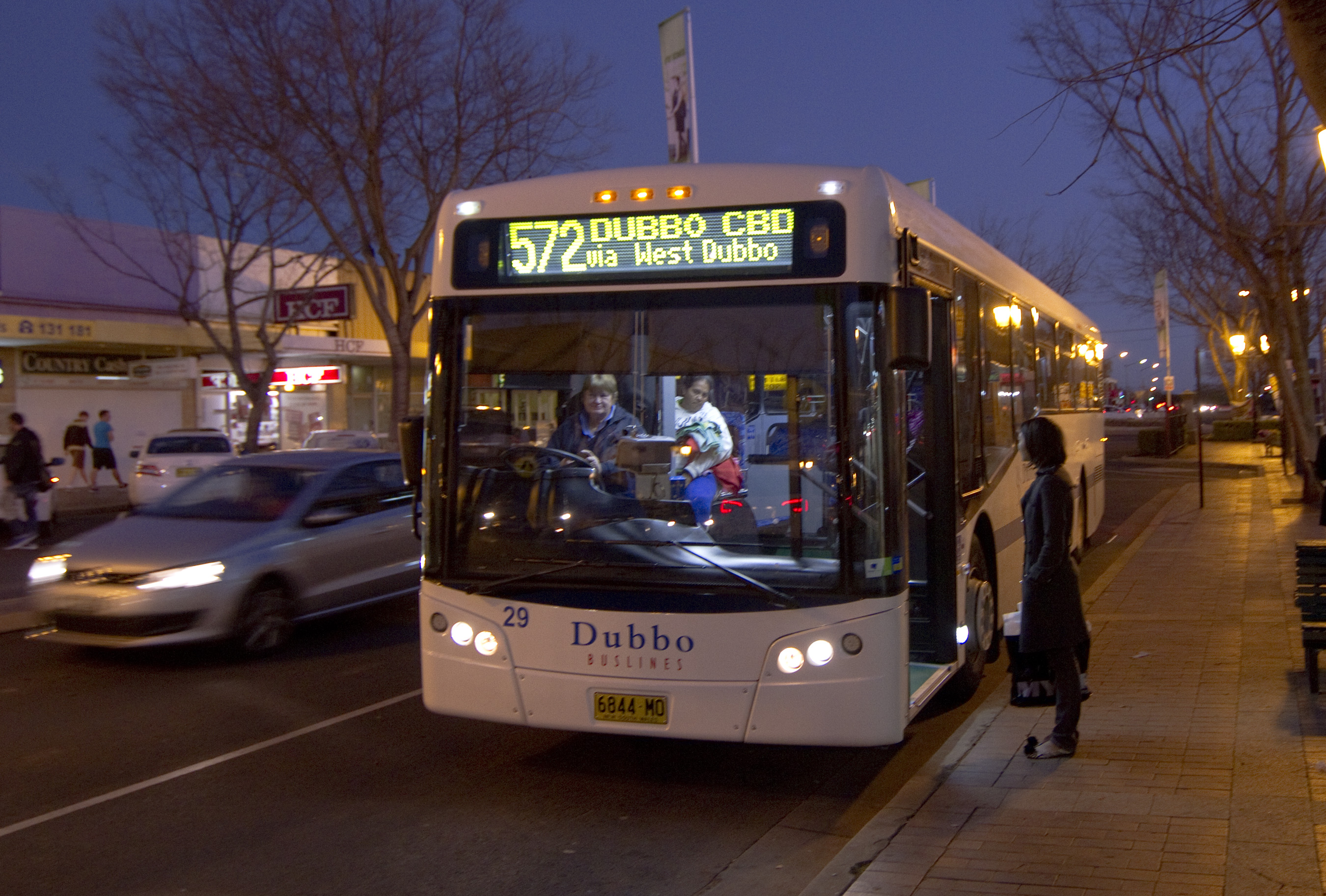 Dubbo buslines bus route 572 at Dubbo CBD, NSW, Australia